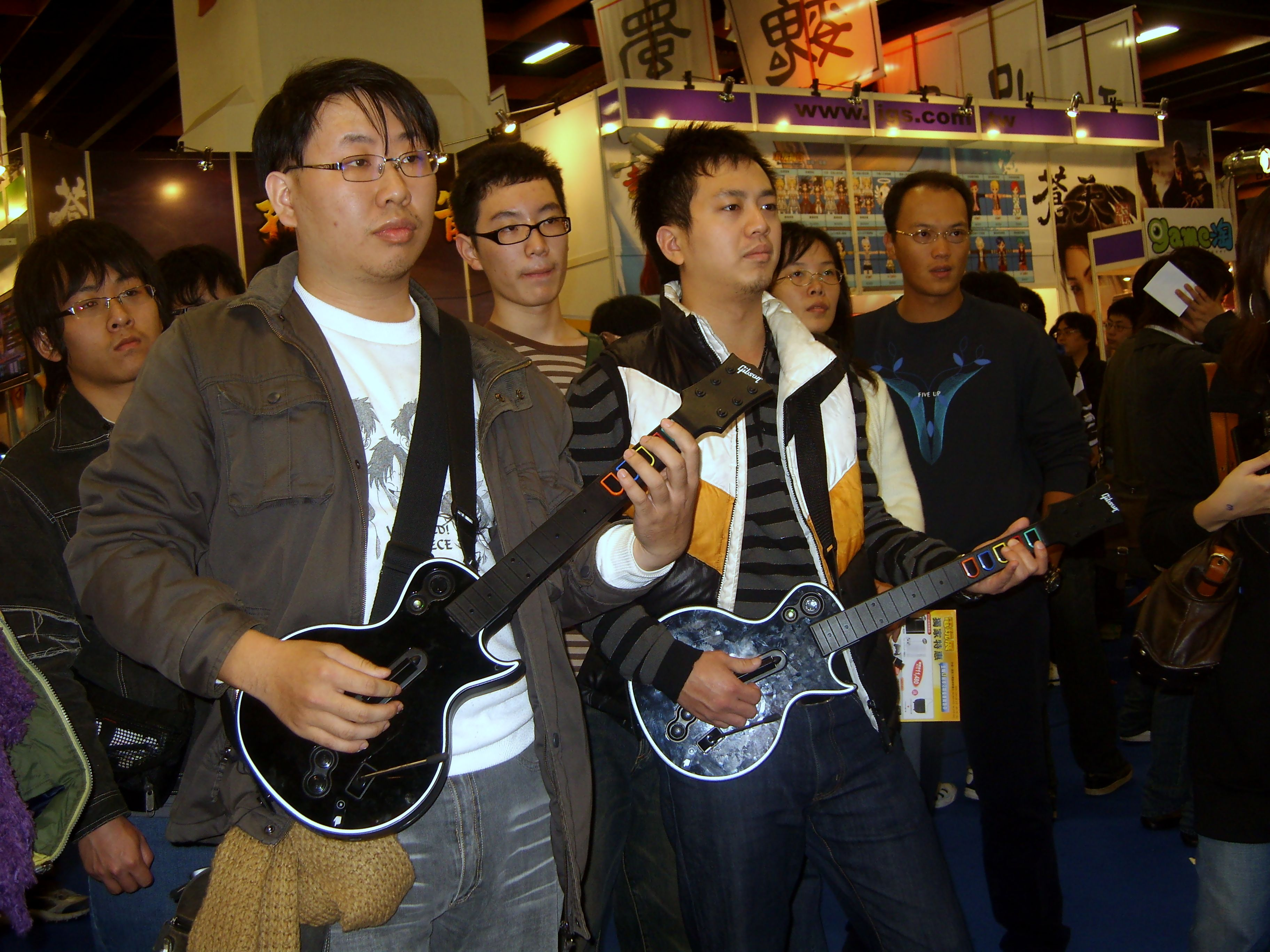 2008 Taipei Game Show: Gamers play Guitar Hero 3 of Xbox 360 version.